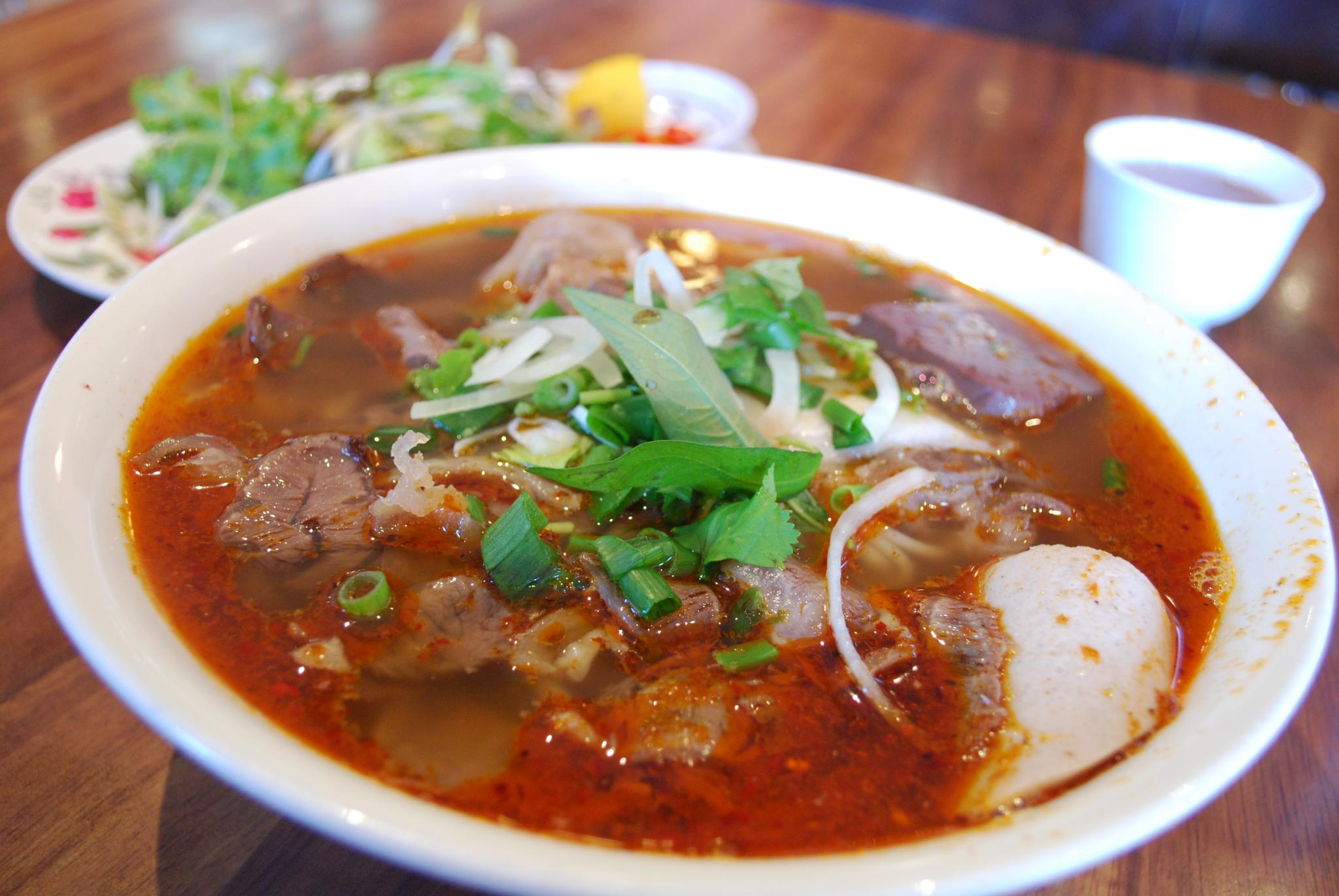 顺化米粉 Bún bò Huế - Dakao Hoang Still the best Bún bò Huế in Melbourne, although the quality can be a bit erratic. Today's soup was rich and strong, with loads of chilli, shrimp and lemongrass oil on top. Similar to what we had in Huế in Vietnam, it had slices of stewed brisket and chunks of pork leg, and a hunk of pigs blood. This one had a light pork sausage, almost like a boudin blanc! Dakao Hoang 17 Balmoral Ave Springvale 3171 (03) 9558 5996